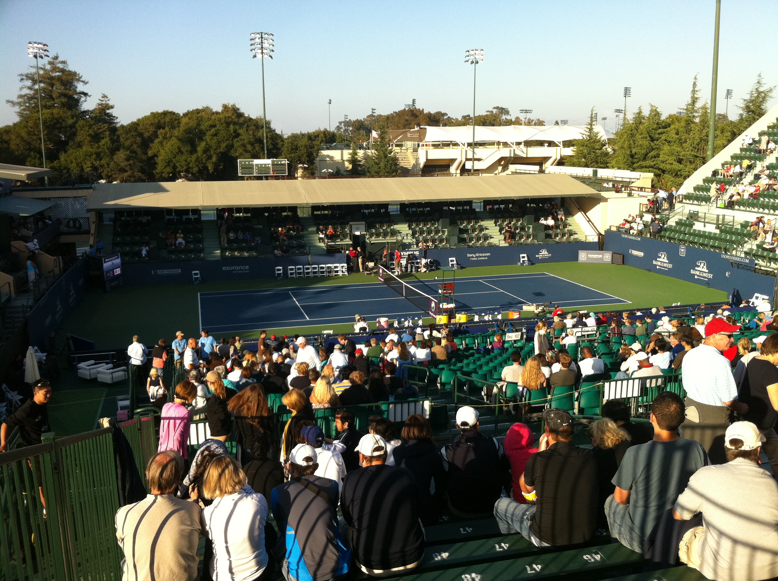 Bank of the West Classic Stadium Stanford